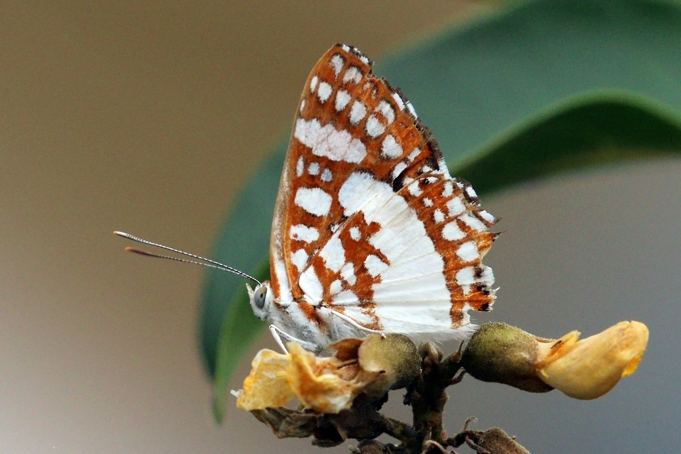 Zygia metalmark (Lemonias zygia zygia), The Pantanal, Brazil